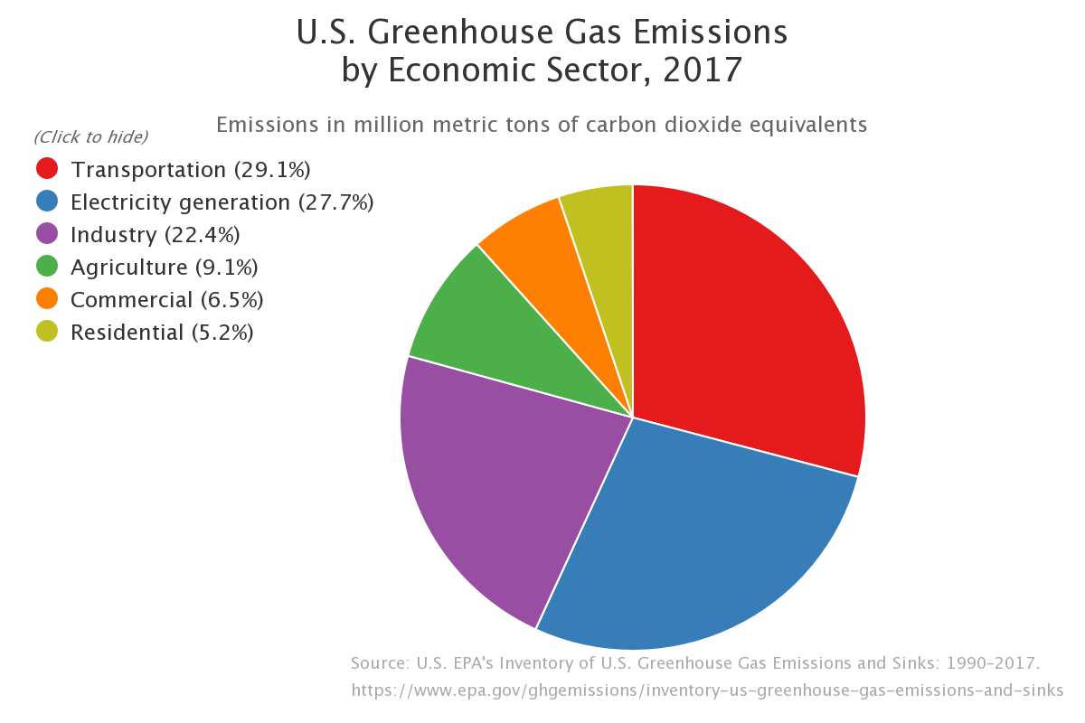 US greenhouse gas emissions by source